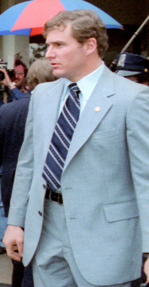 Secret Service agent Tim McCarthy immediately before he took a bullet intended for President Ronald Reagan.